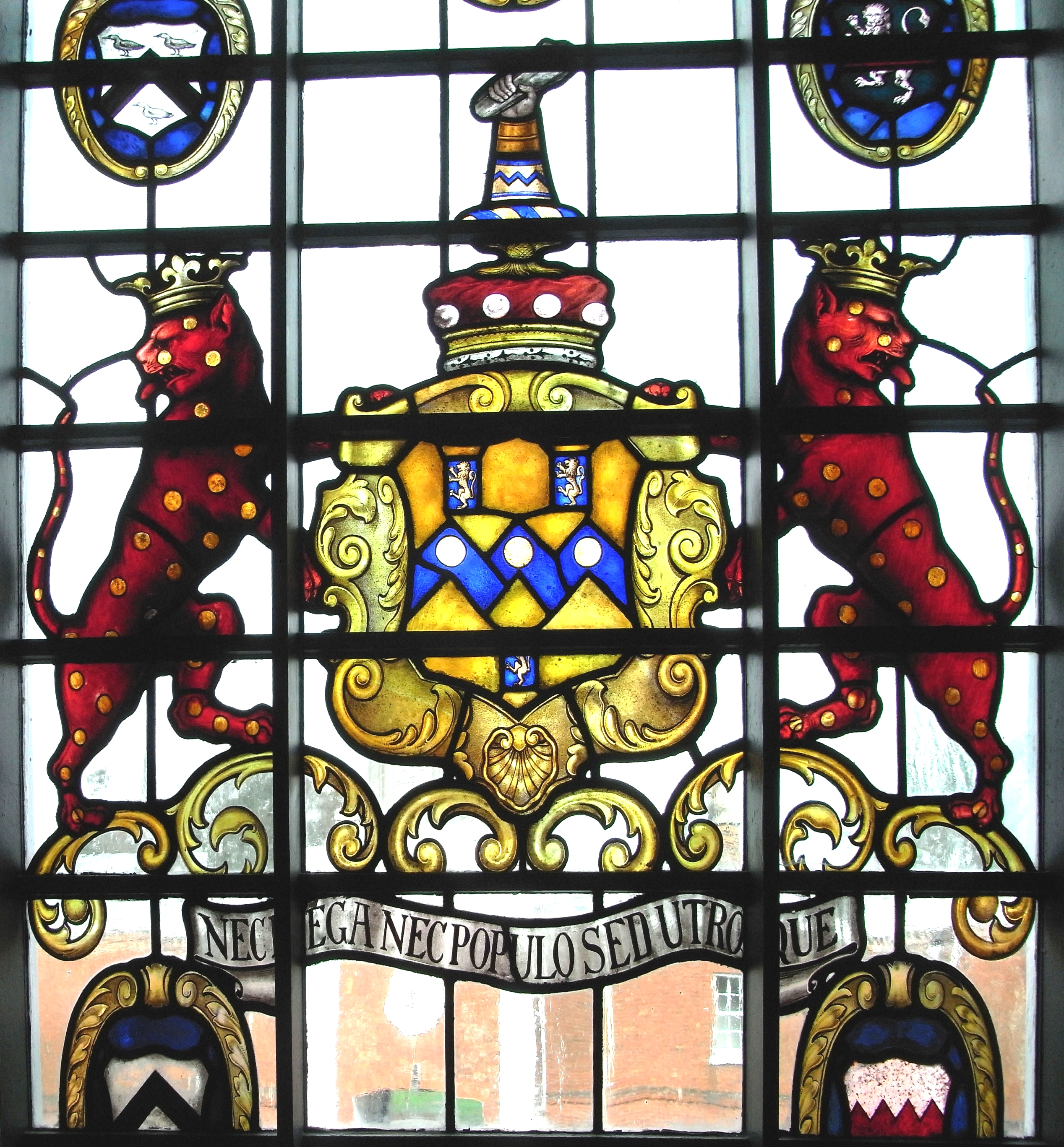 Heraldic achievement of John Rolle, 1st Baron Rolle (d.1842), stained glass in first-floor window, top of grand staircase, Bicton House, near Exeter, Devon. The four surrounding shields are obscure, not the usual Rolle quarterings.